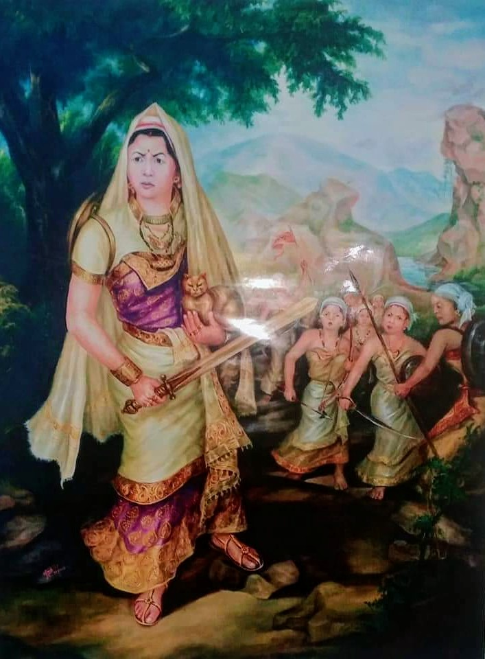 Portrait of the last Chutia queen Sadhani, who created Asia's first women's army.